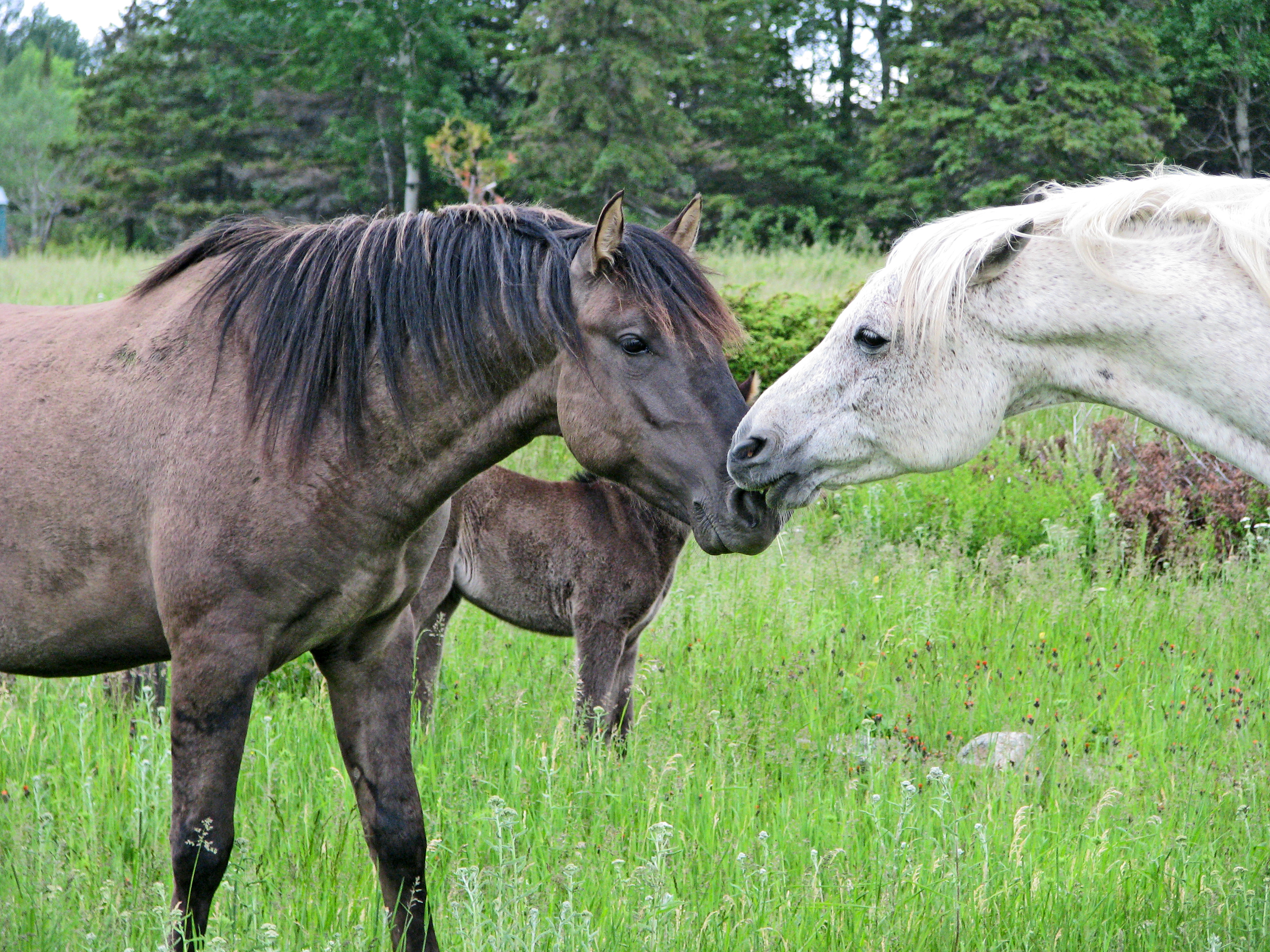 Sorraia stallion, Altamiro with Arabian gelding, Mistral